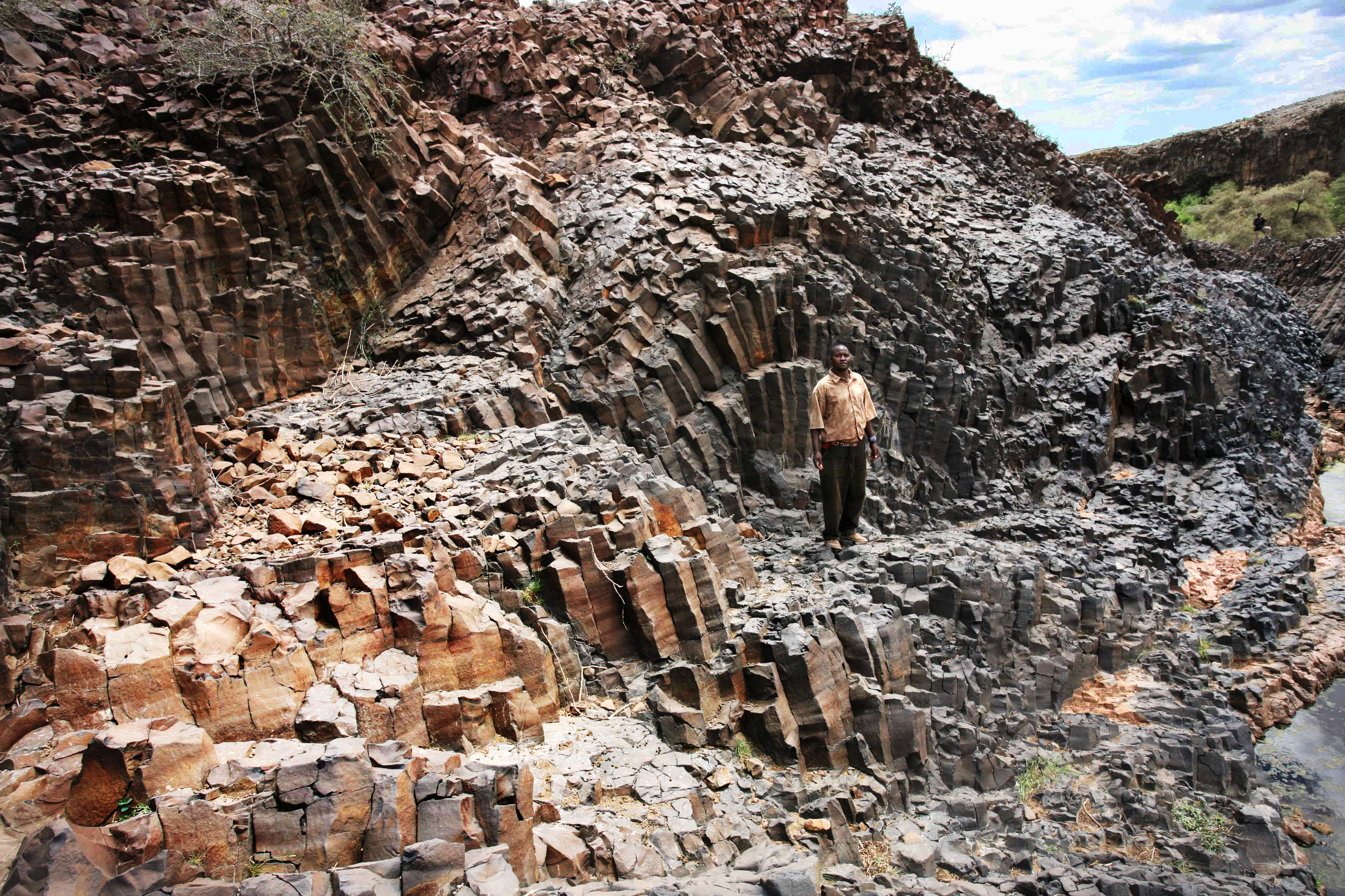 Columnar basalt at Karsa, in Turkana, Kenya, dating to the Pliocene.